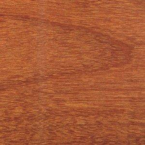 Picture of Afrormosia wood veneer sample